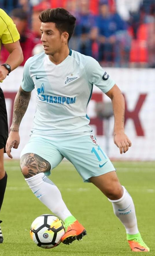 16.07.2017. Россия, Хабаровск, стадион им. Ленина. РОСГОССТРАХ-Чемпионат России 2017/18, 1-й тур, «СКА-Хабаровск» — «Зенит».